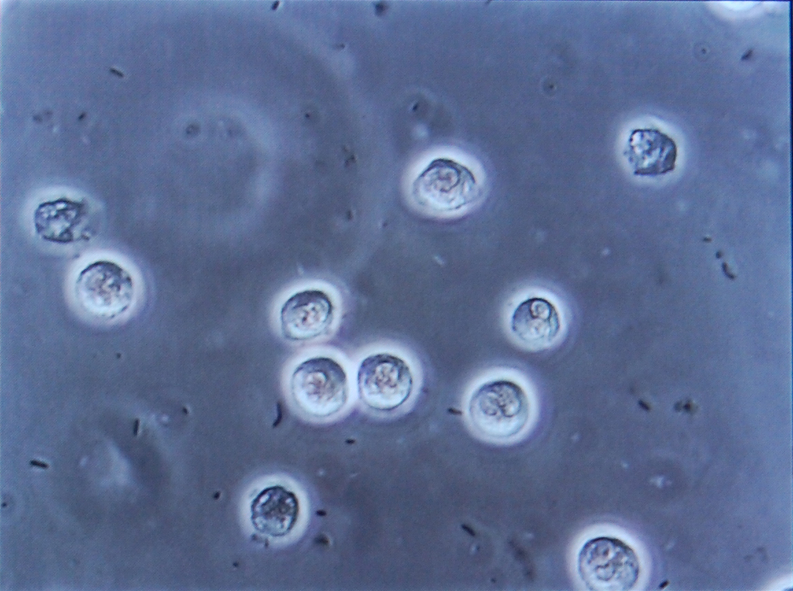 Bacteriuria and pyuria demonstrated at urinary microscopy.